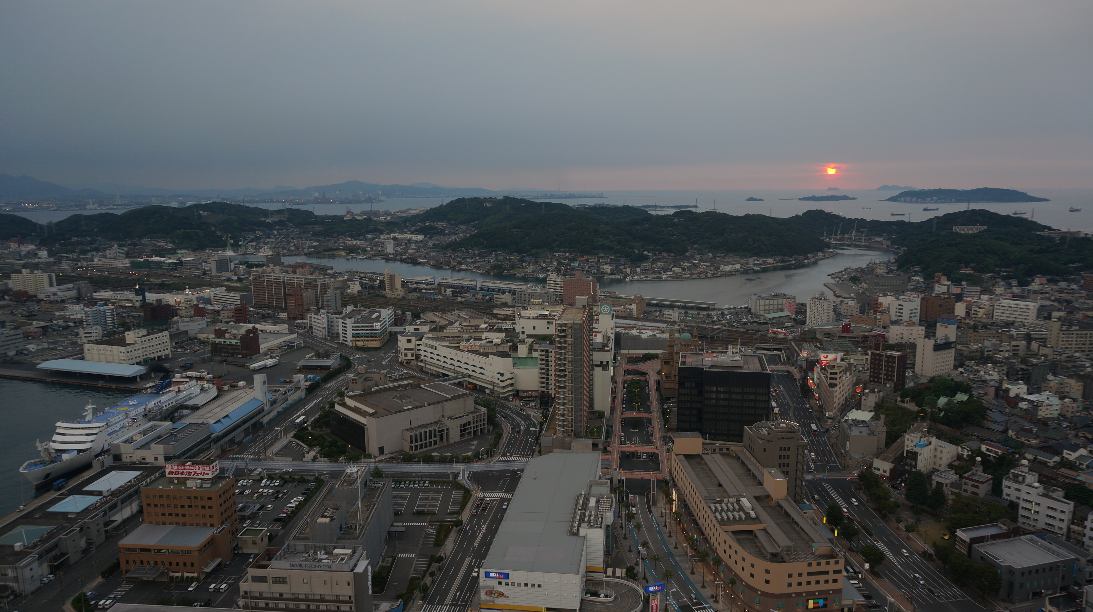 Shimonoseki city